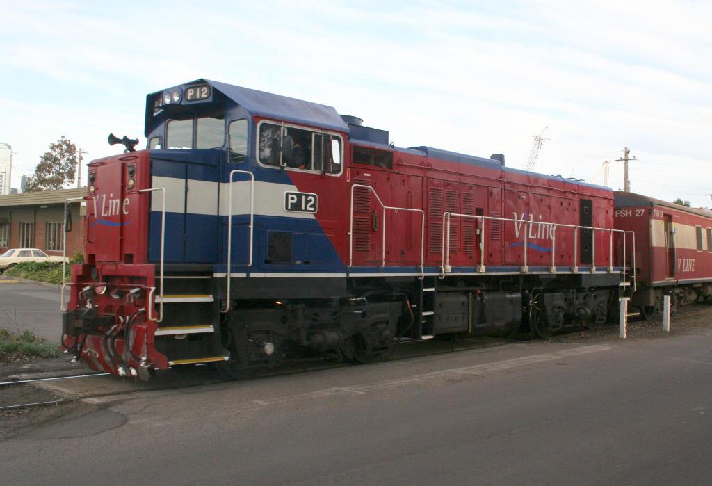 V/Line owned P class diesel electric locomotive P12, at North Melbourne, Victoria, Australia